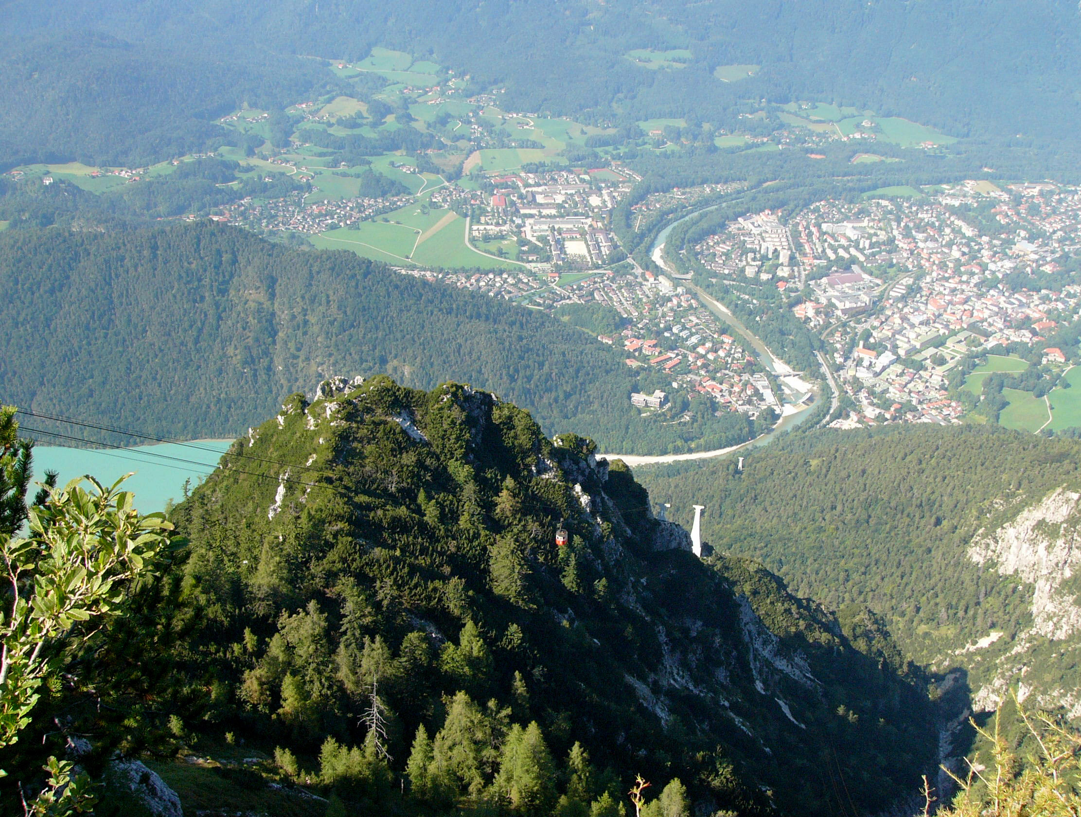 Viewing Bad Reichenhall from the peak of Predigtstuhl, Germany